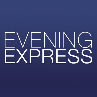 Logo for the cable television news program Evening Express on HLN